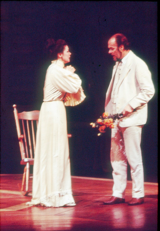 Dutch actors Ton Lutz and Ann Hasekamp